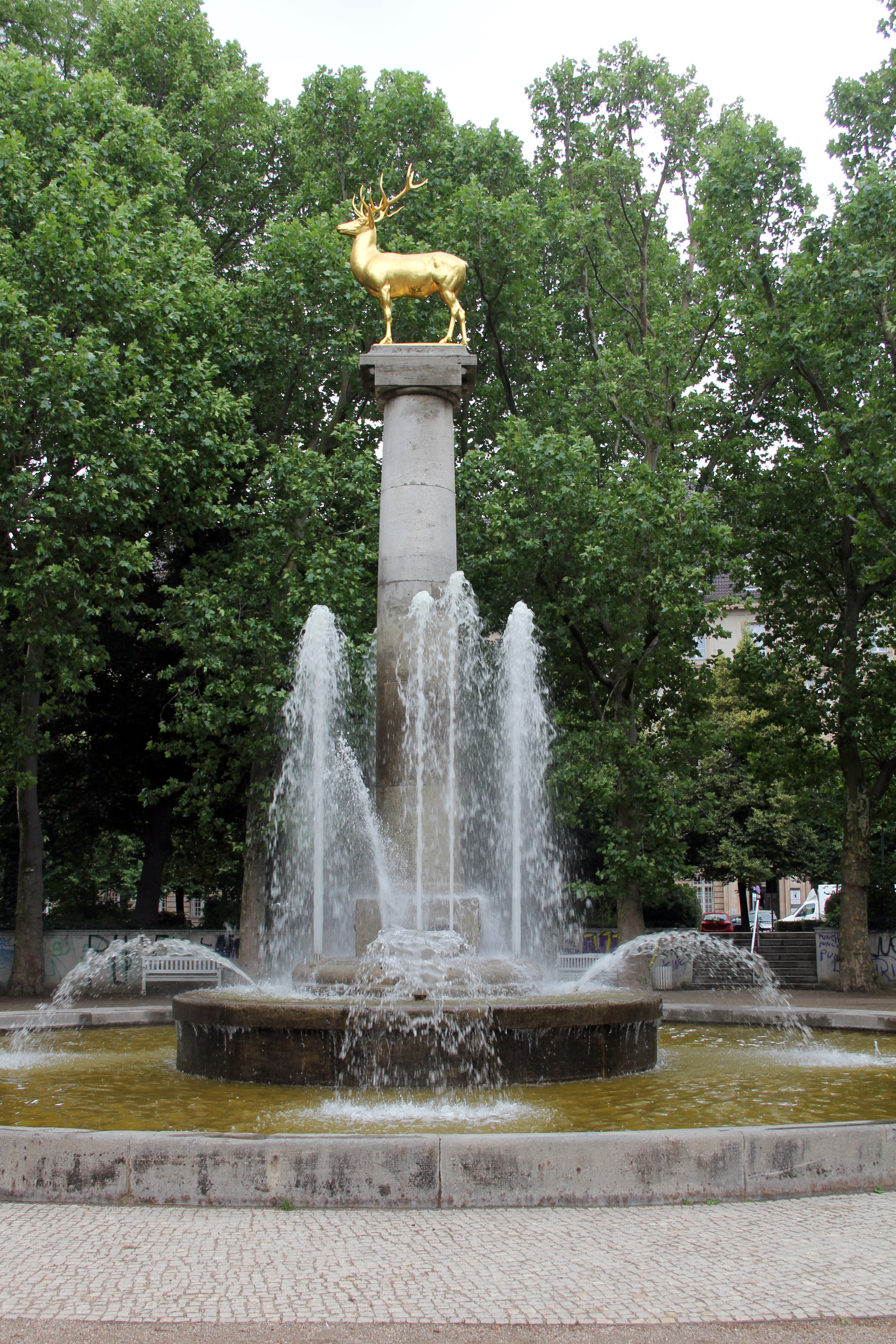 Fountain, Hirschbrunnen by August Gaul, 1912, Rudolph-Wilde-Park, Berlin-Schöneberg, Germany